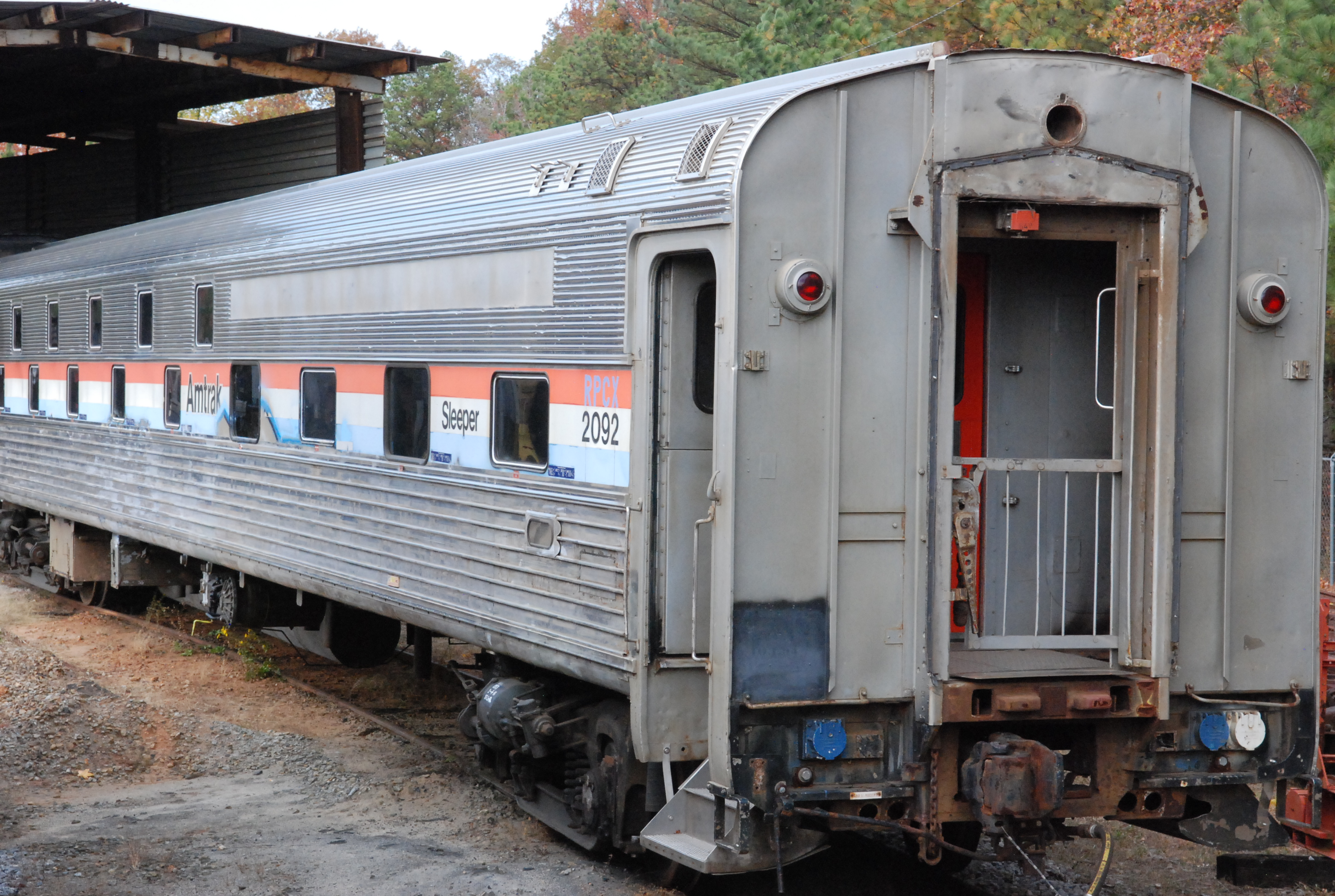 Southeastern Railway Museum - Duluth, GA. This is the Slumbercoach Loch Arkaig, which was used by the New York Central Railroad, Northern Pacific Railway, and finally Amtrak.